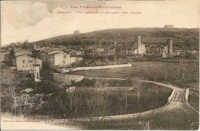 Ancien postcard of Codalet